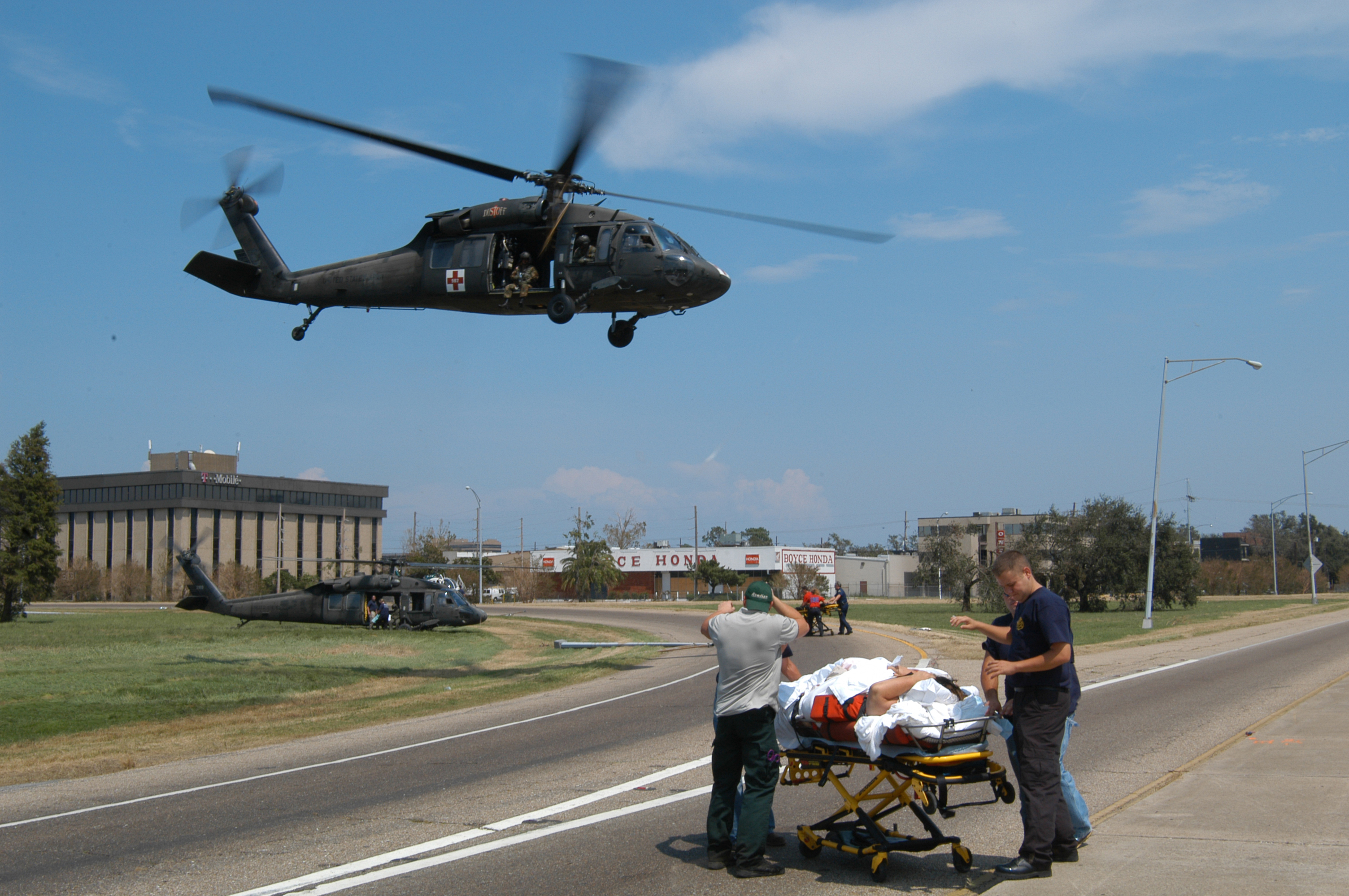 Metairie, Louisiana, August 31, 2005 - Emergency medical technicians quickly move an evacuated resident from the Medevac helicopter as a second helicopter, already unloaded, heads back into the flooded city to locate and evacuate more victims. Much of Greater New Orleans was devastated by winds and flood waters from Hurricane Katrina and associated levee failures on August 29. Photo by Win Henderson / FEMA photo